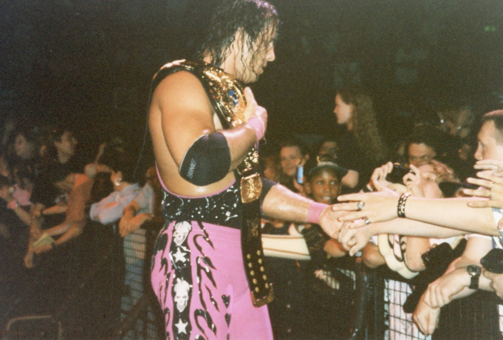 WWE - Wembley Arena 140994 (10)